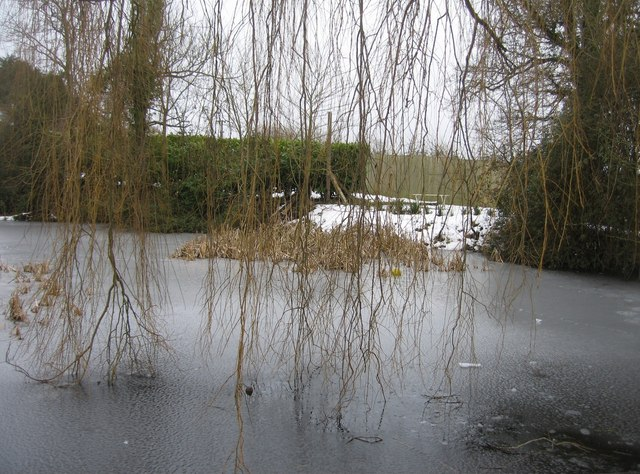 Dipping in the ice Branches of the willow are just touching the ice on the pond by St Mary's church.